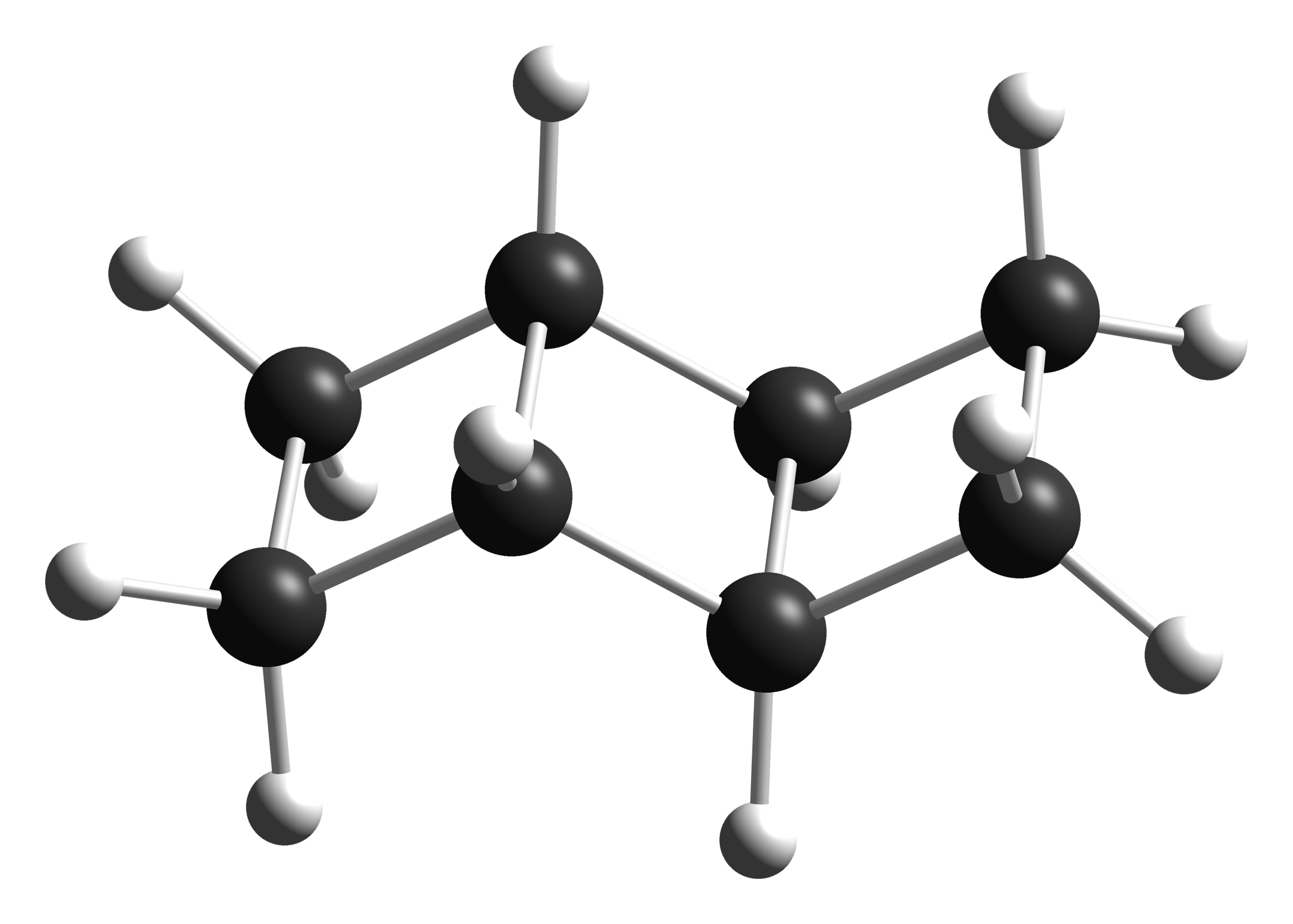 Ball-and-stick diagram of the ladderane molecule. Structure calculated with Spartan Student 4.1, using the Hartree-Fock level of theory and the 3-21G basis set. Colour code: Carbon, C: black Hydrogen, H: white Image generated in CrystalMaker 8.3.